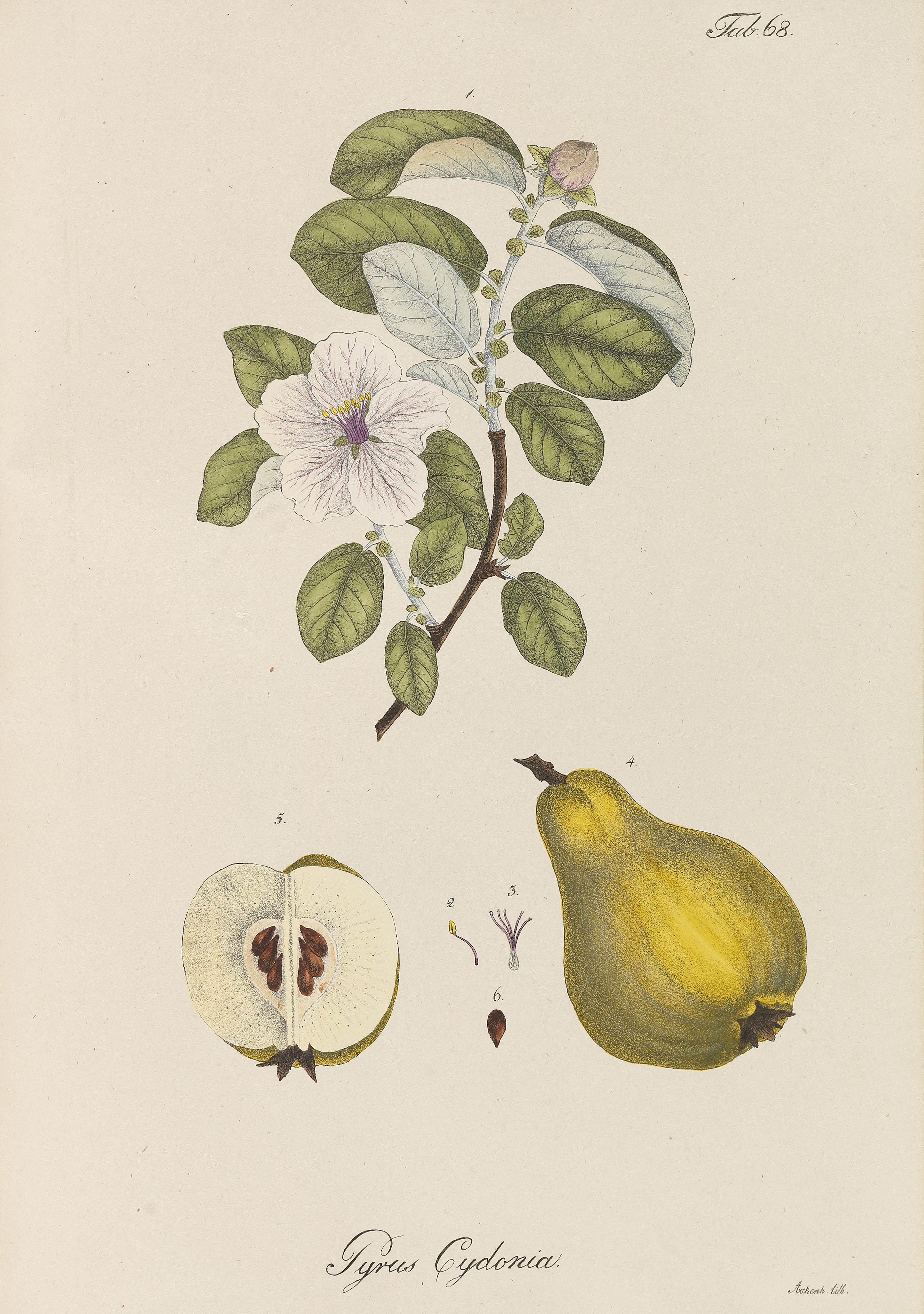 Cydonia oblonga Mill. (= Pyrus cydonia L.) - from Vollständige Beschreibung und Abbildung der sämmtlichen Holzarten (1826-32)